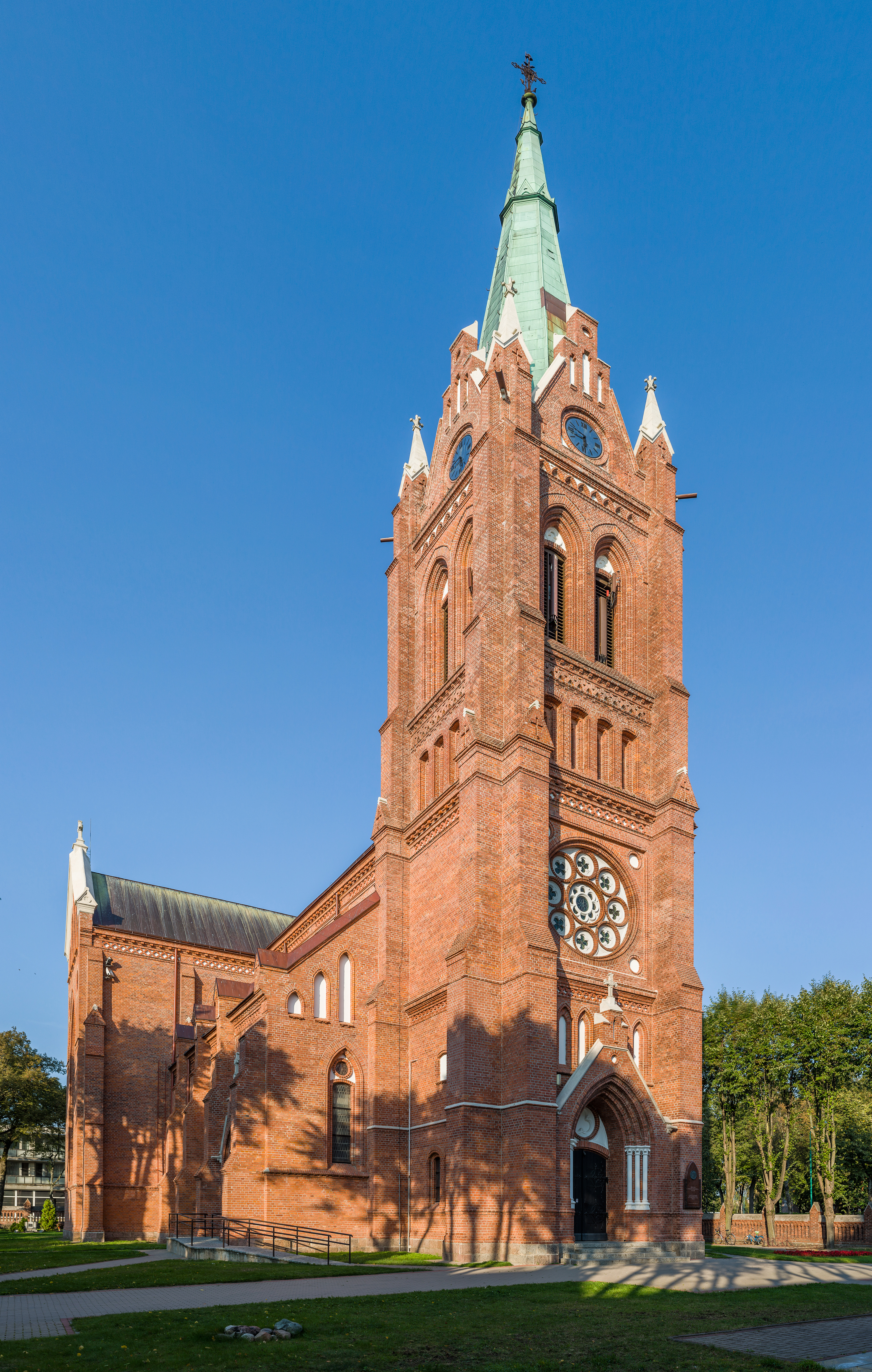 The exterior of the Church of Saint Marie in Palanga, Lithuania.